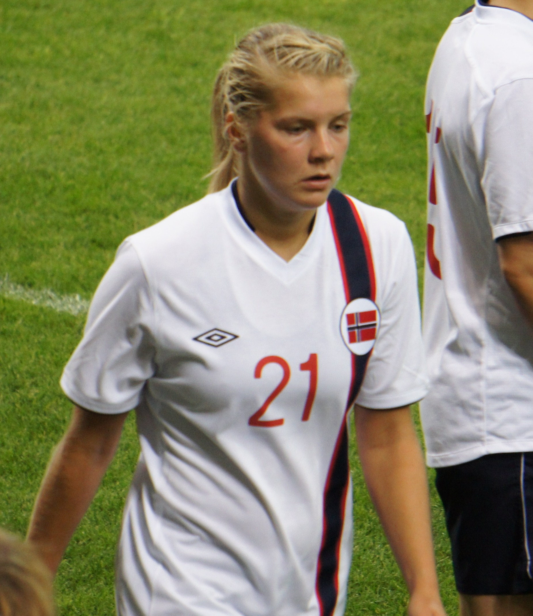 Ada Hegerberg, norwegian women's association football player.